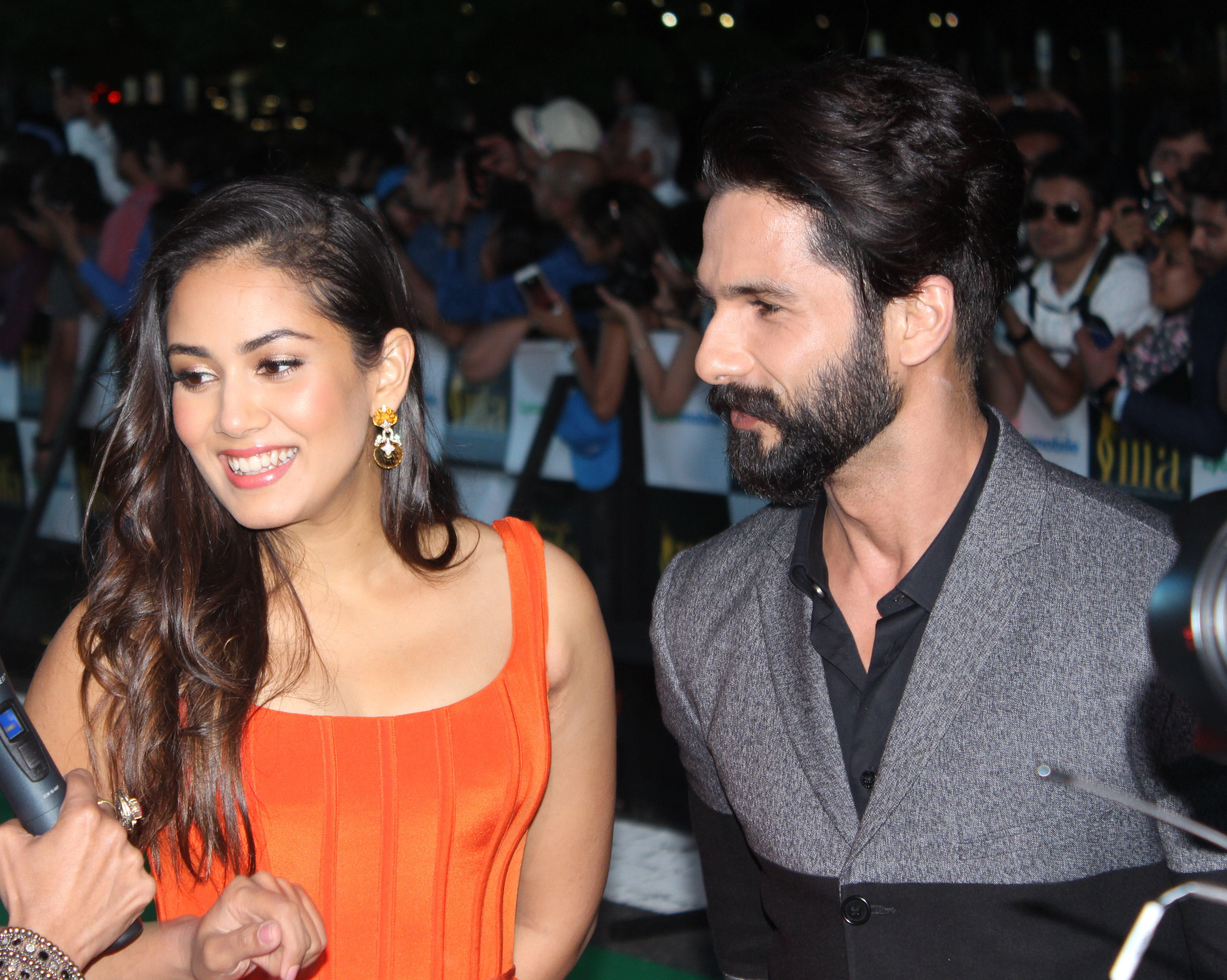 Shahid Kapoor and Mira Rajput at IIFA 2017